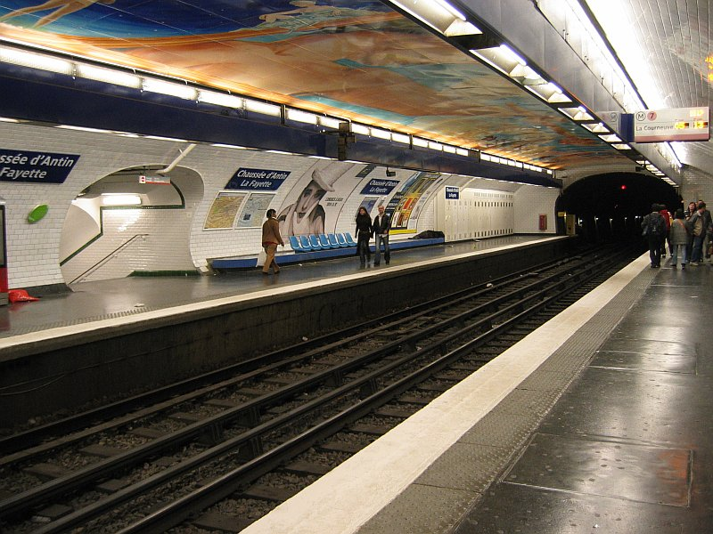 Paris Métro, station Chaussée d'Antin – La Fayette (line 7)